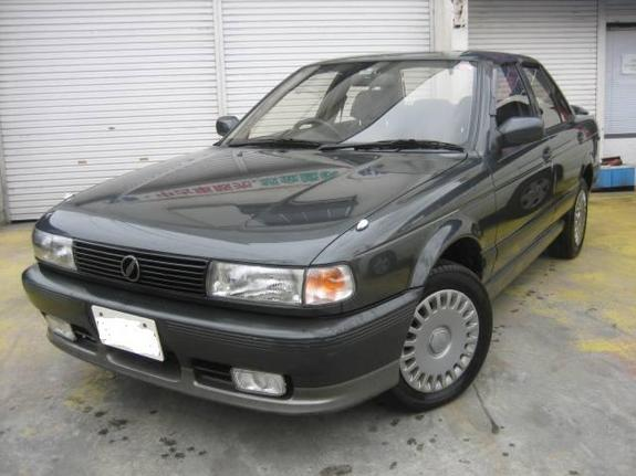 Sunny B13 GTS ver.1